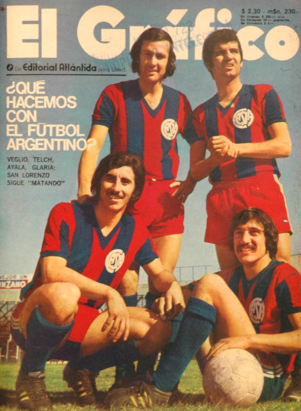 Some players of San Lorenzo posing in 1972. (up): Veglio, Telch. (down): Ayala, Glaría.